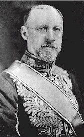 Sir Cecil Spring-Rice (1859-1918)